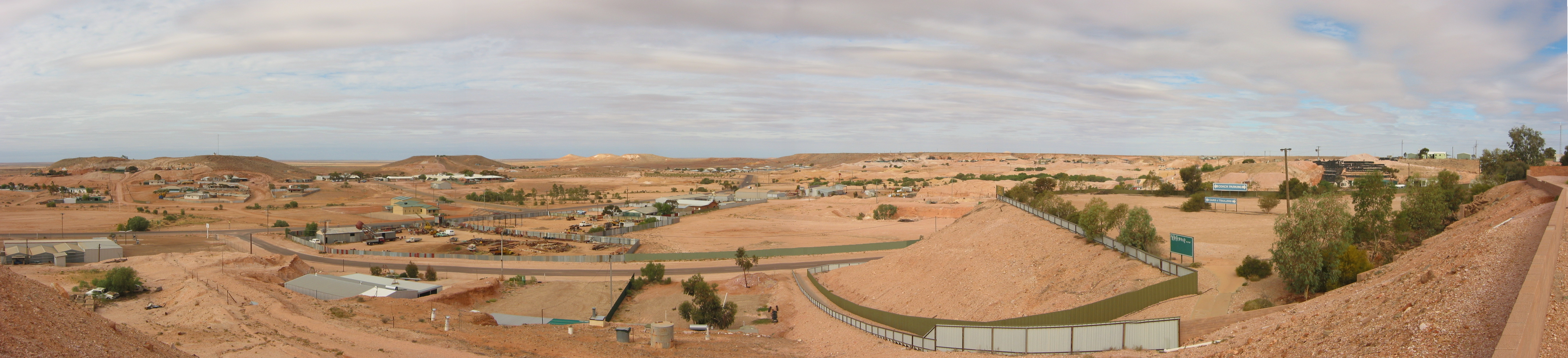 Coober Pedy Panorama